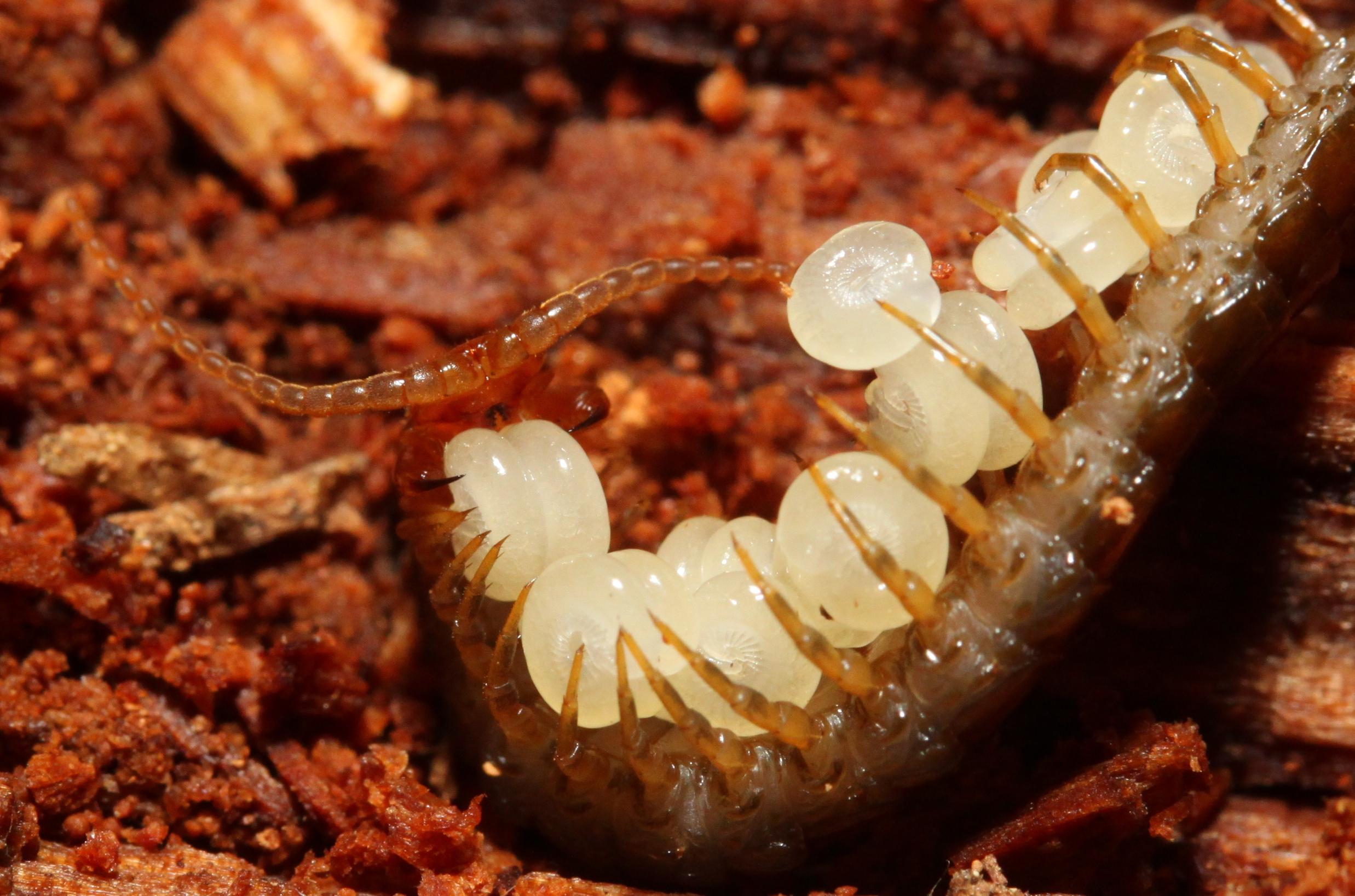 A centipede guarding its eggs, from Oregon Caves National Monument.